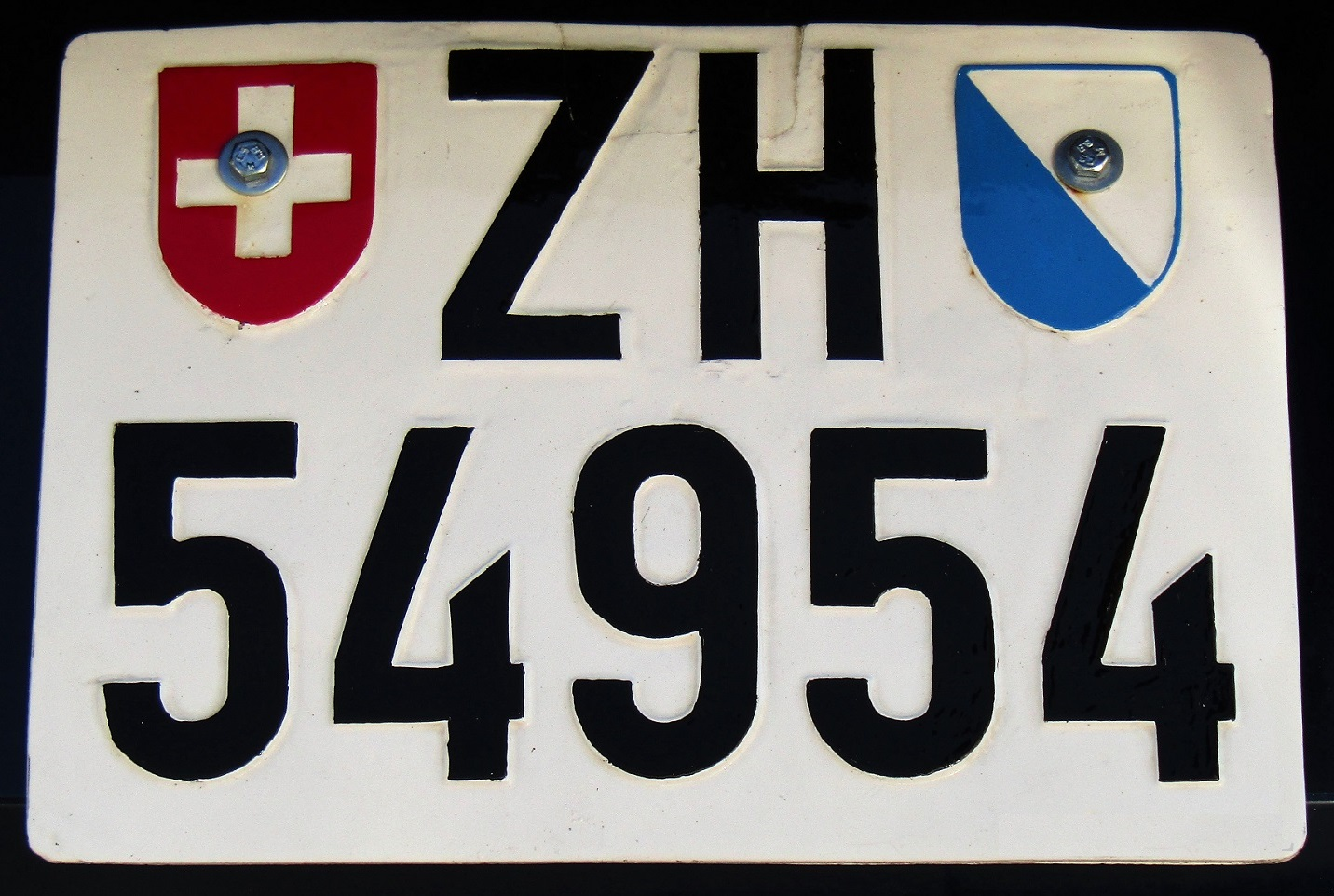 Altes Kontrollschild aus Zürich, Hochformat